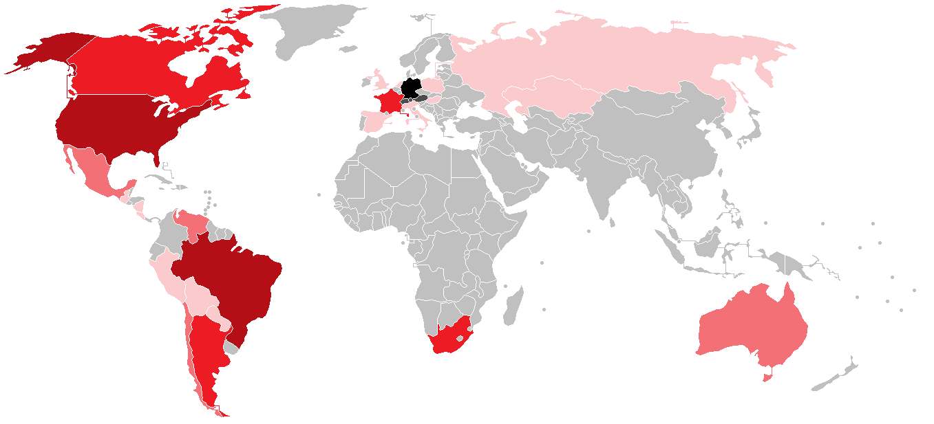 This map depicts countries by number of people, who reported German ancestry based on sources provided in German diaspora article. Legend: Germany Austria, Luxembourg, Liechtenstein and Switzerland More than 10 million More than 1 million More than 500 thousand More than 100 thousand